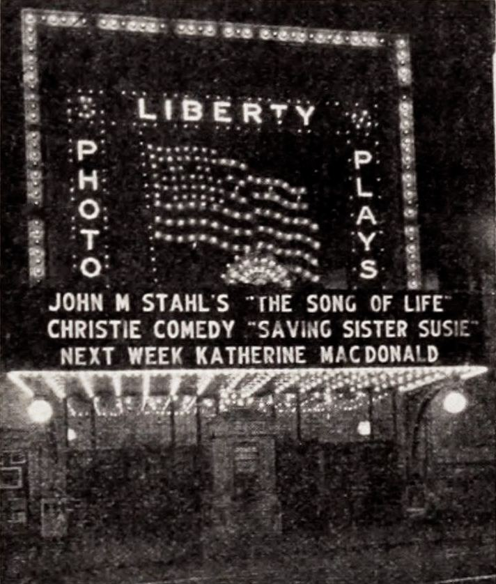 The Liberty Theater in Pennsylvania, showing the American drama film The Song of Life (1922) and the comedy short film Saving Sister Susie (1921), on page 53 of the March 11, 1922 Exhibitors Herald.